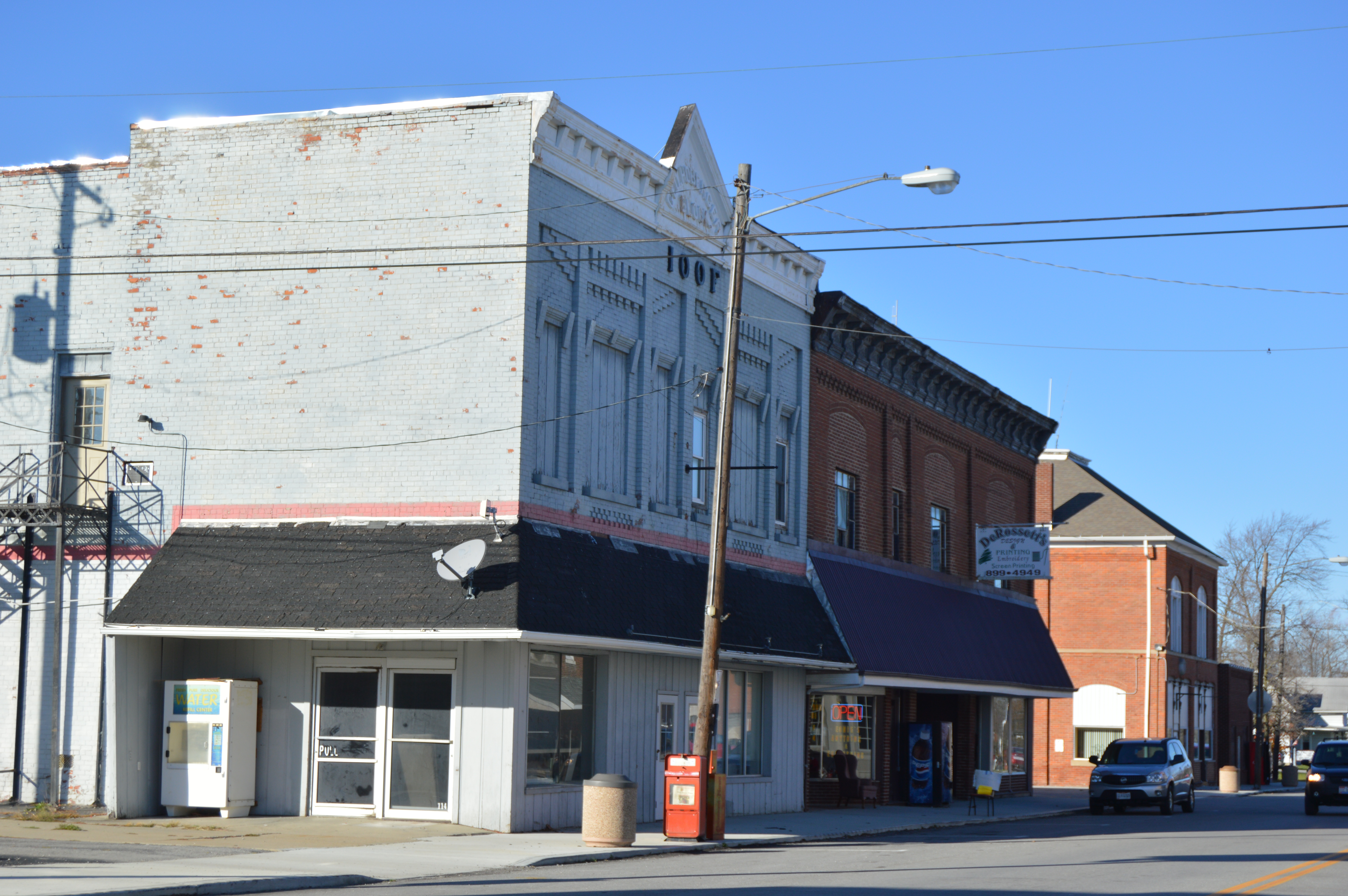 Buildings on the western side of Harrison Street (U.S. Route 127) south of the Vine Street intersection in central Sherwood, Ohio, United States.